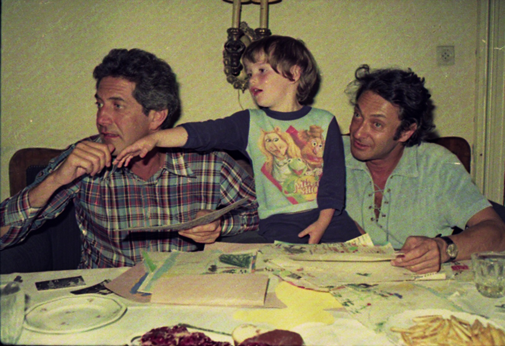 Péter Fischer, the ex-husband of Flóra Kádár (right) with his younger brother, György Fischer and their niece